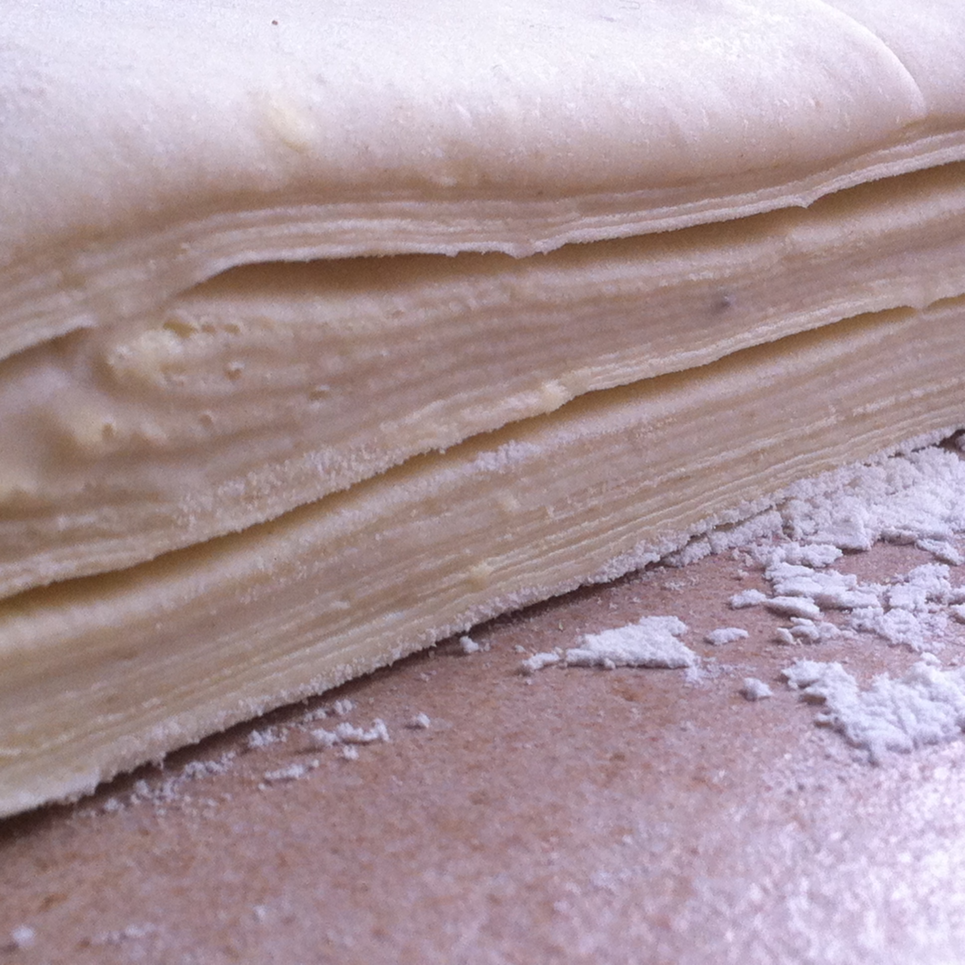 Puff pastry / pâte feuill